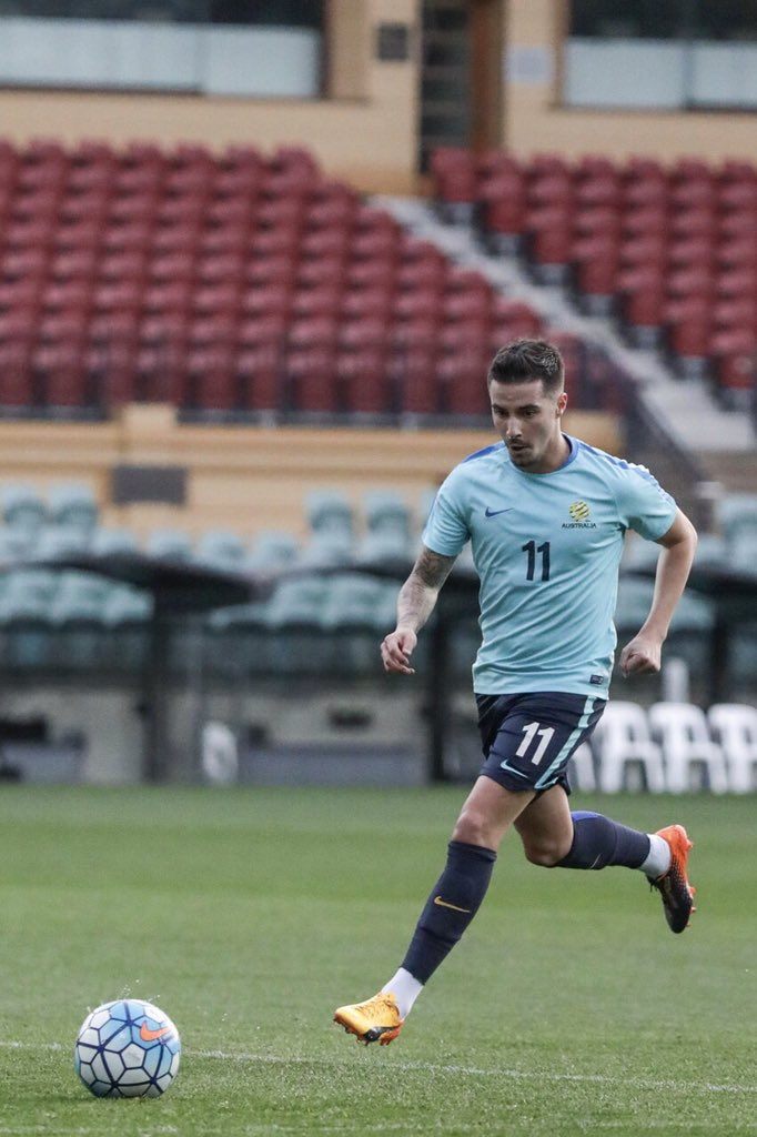 Jamie Maclaren training with the Socceroos June 2017